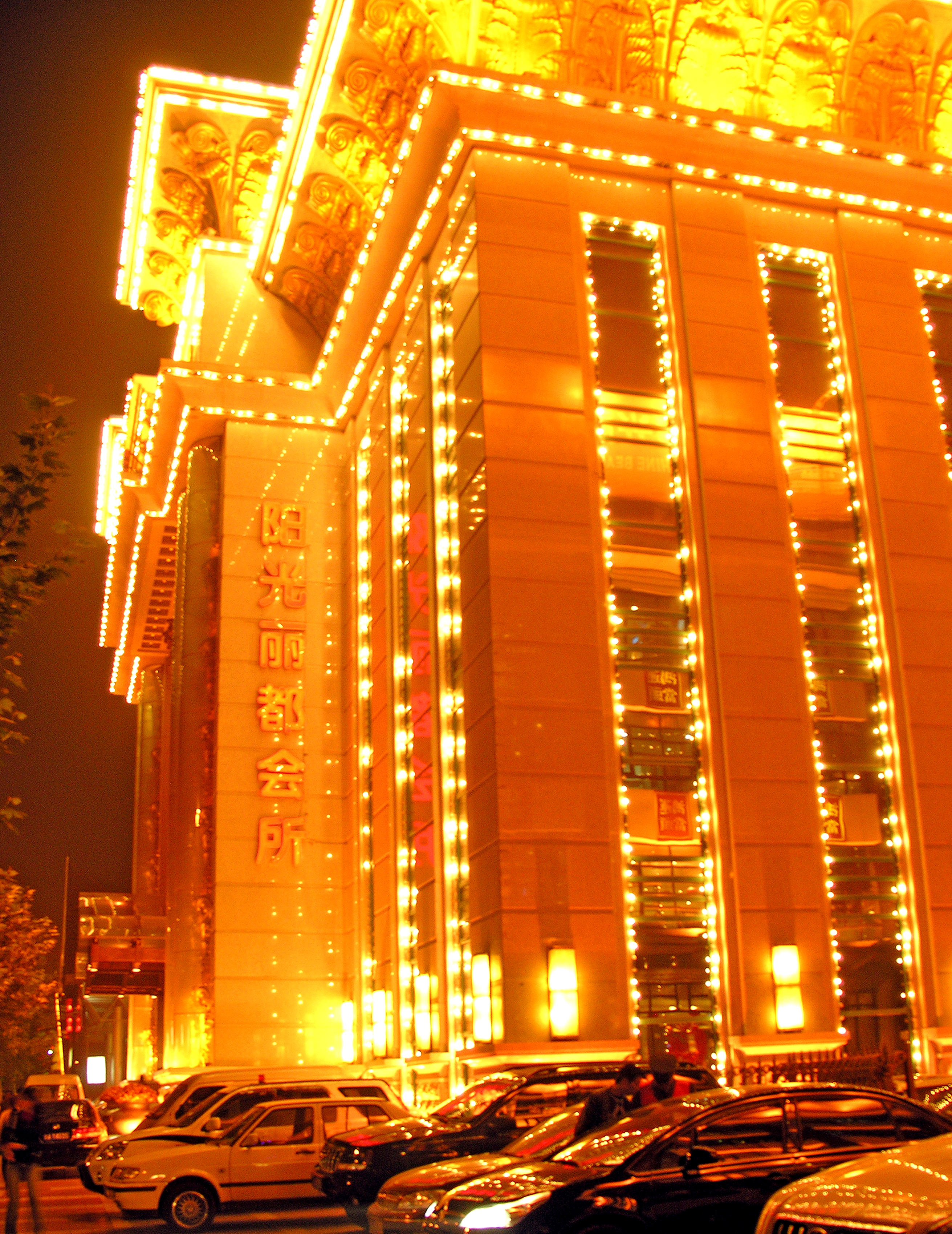 Xian Sunshine Grand Theatre